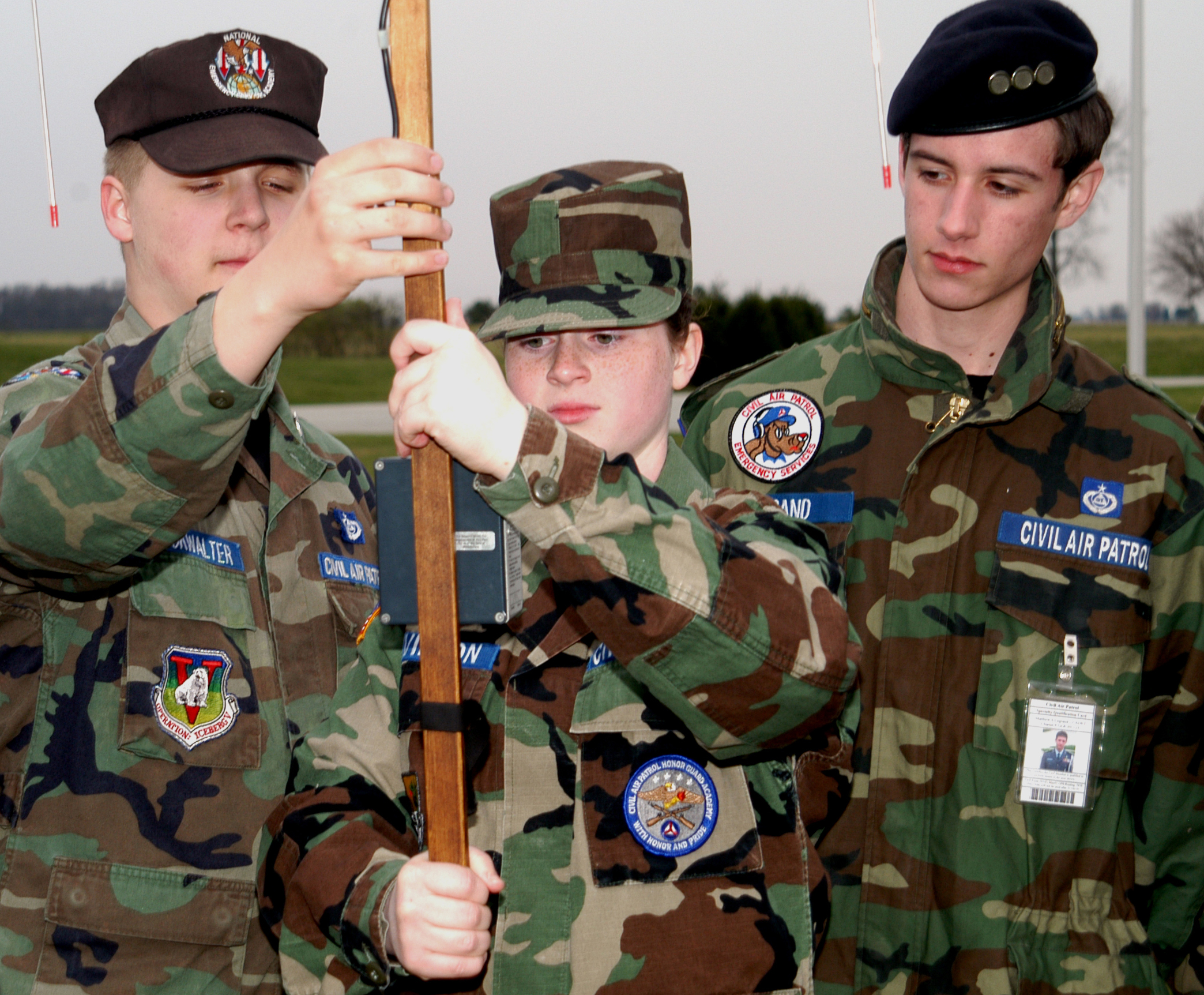 GRISSOM AIR RESERVE BASE, Ind.--Civil Air Patrol Cadet Senior Master Sgt. Bryce Bookwalter instructs a squad of Indiana CAP cadets in the use of equipment used to locate aircraft ELT signal devices, during a ground team training exercise held at Grissom April 14 and 15. (U.S. Air Force photo/Senior Airman Chris Bolen)